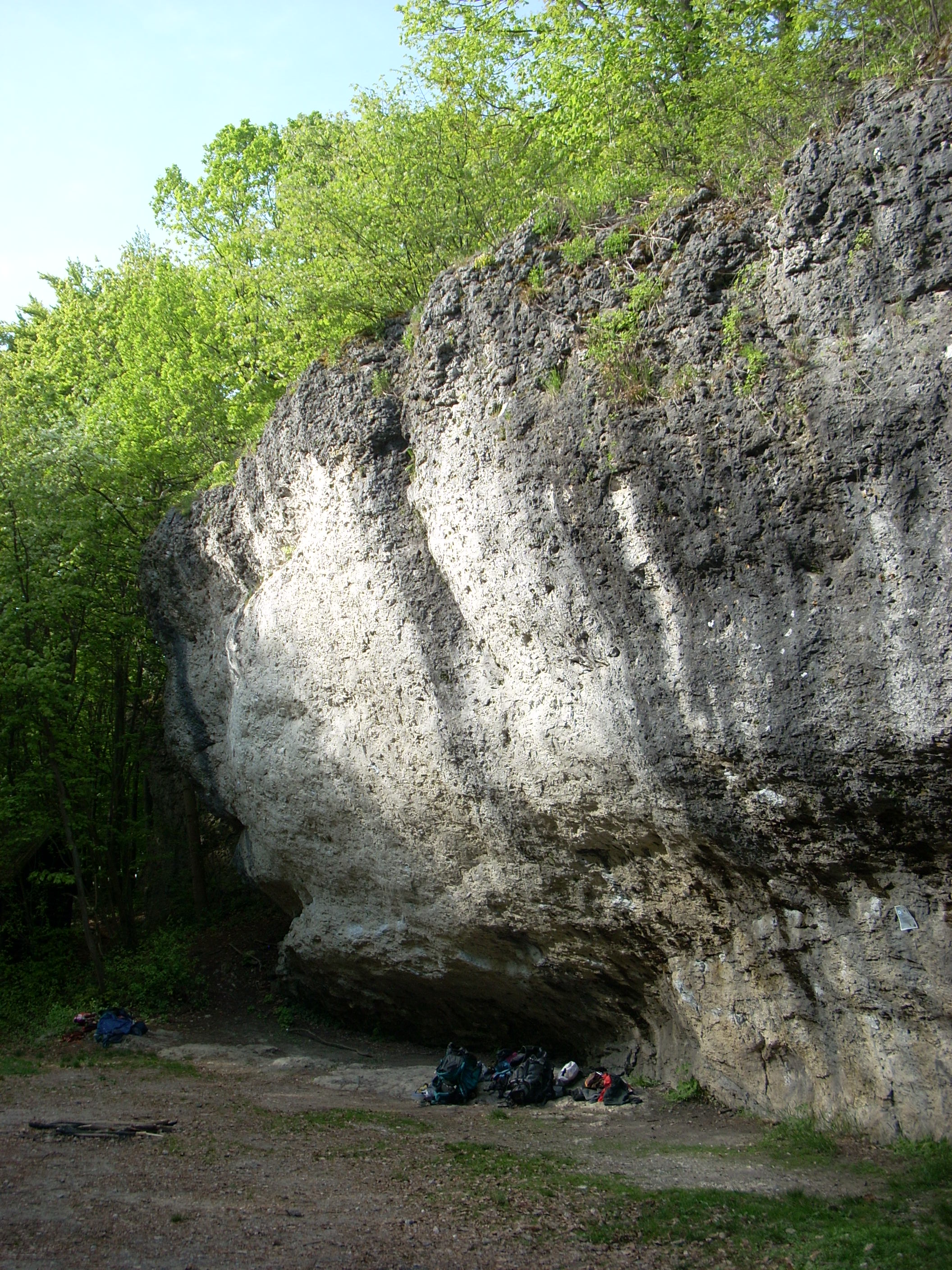 Rock "Klagemauer" near by Obertrubach